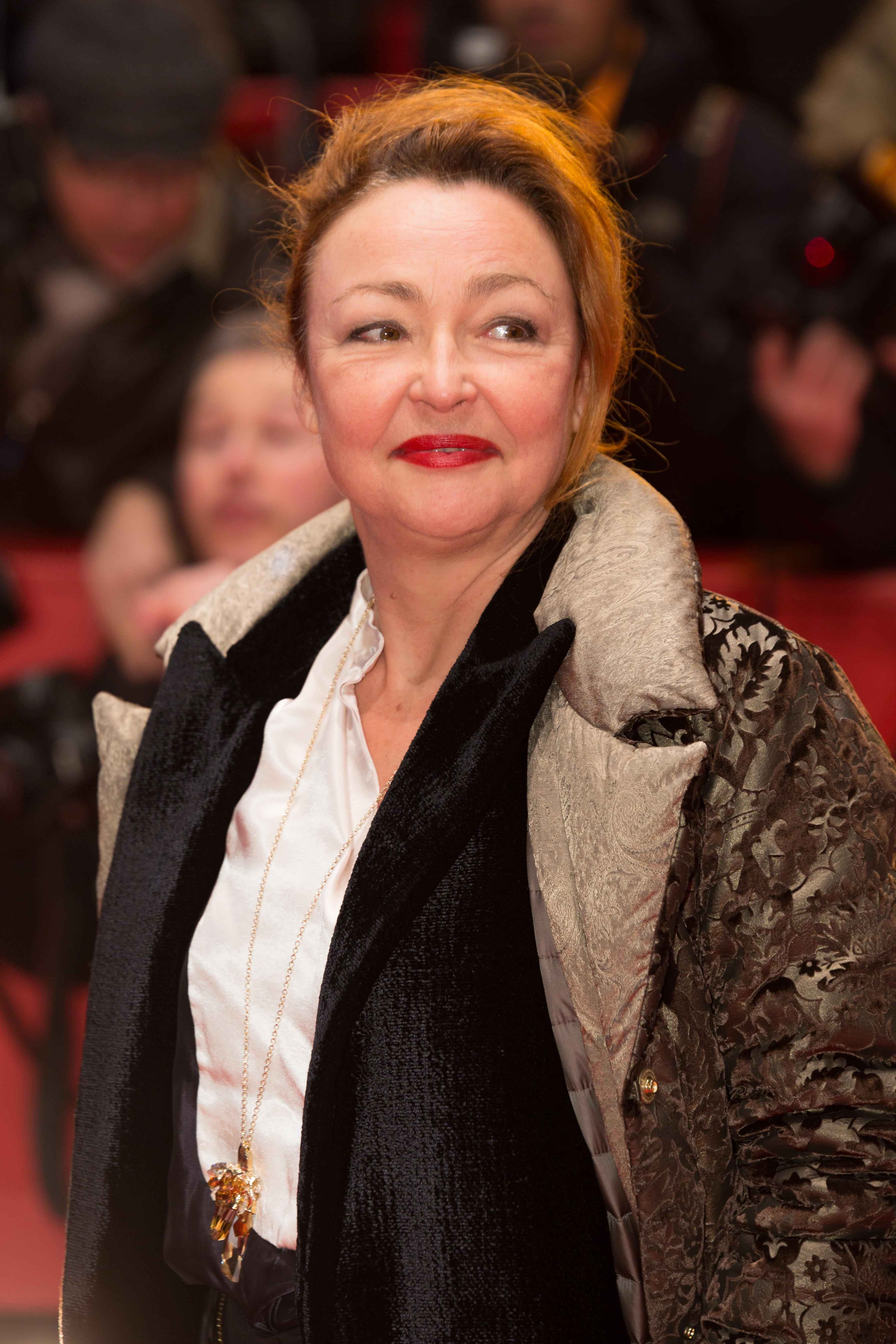 Catherine Frot at the presentation of Mid Wife during the Berlinale 2017